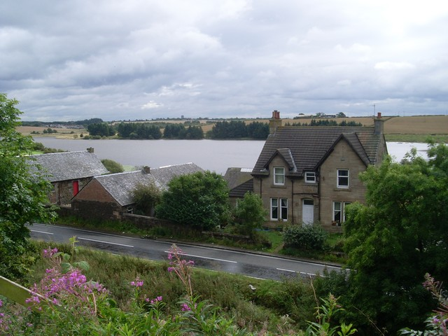 Loch Farm and Gadloch A fine view to be had from this section of Crosshill Road, just before it meets with Robroyston Road.